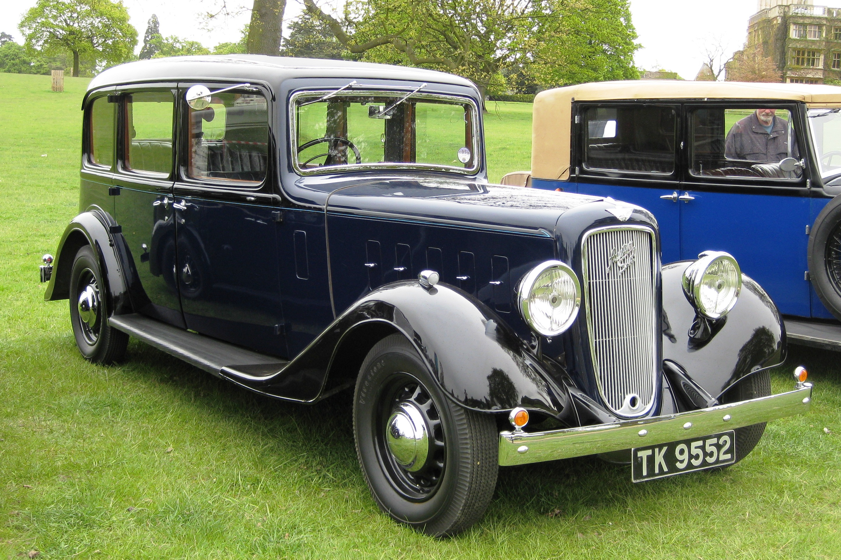 Austin 20 sedan first registered december 1936 with 3377 cc engine according to UK government database